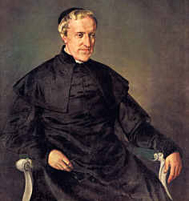 Portrait of Antonio Rosmini (1797-1855)